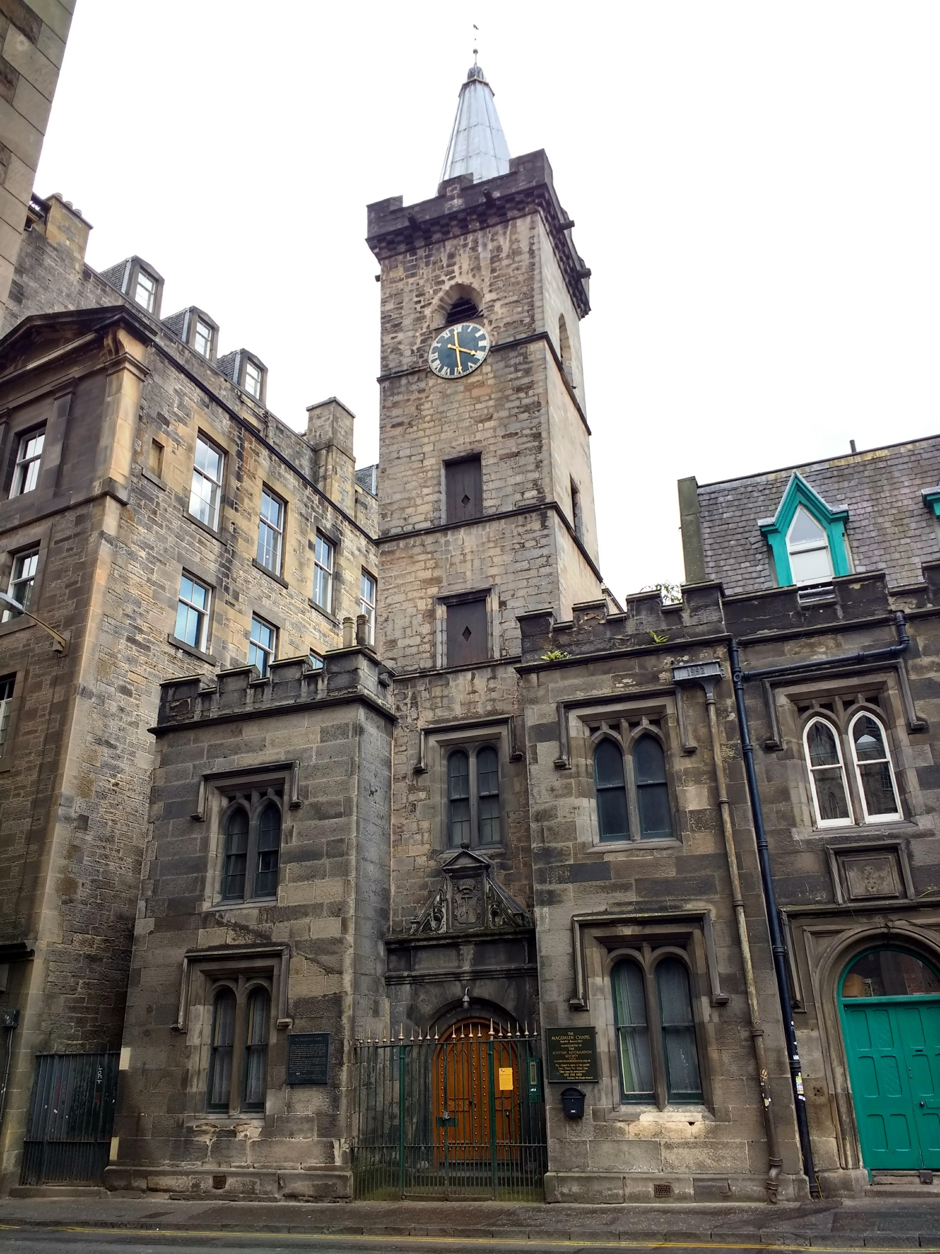 Edinburgh, 41 Cowgate, Magdalen Chapel Wikidata has entry Q17570357 with data related to this item.